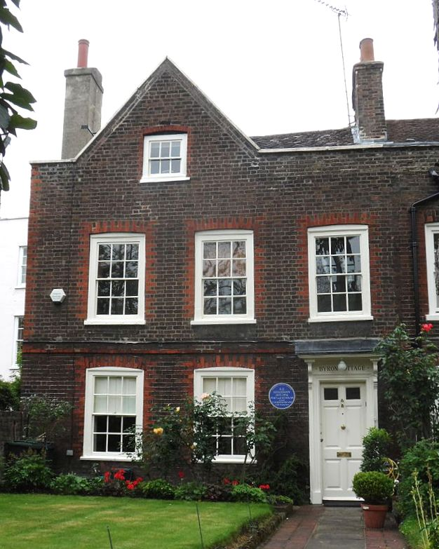 Byron Cottage at 17 North Road Highgate London N6. The blue plaque reads: A.E. HOUSMAN 1859-1936 POET and SCHOLAR wrote A SHROPSHIRE LAD while living here